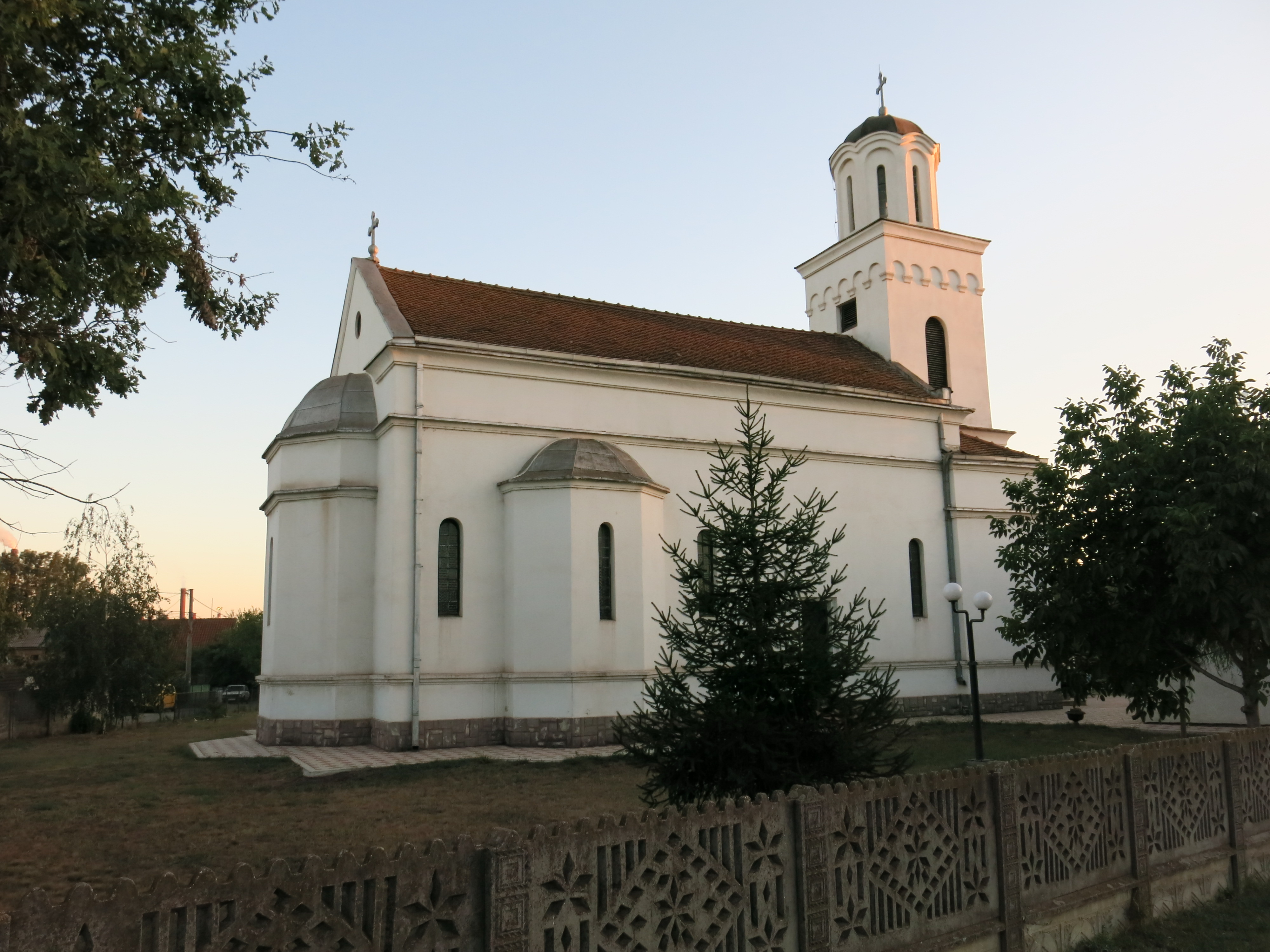 Radinac, Church of Saint Parascheva